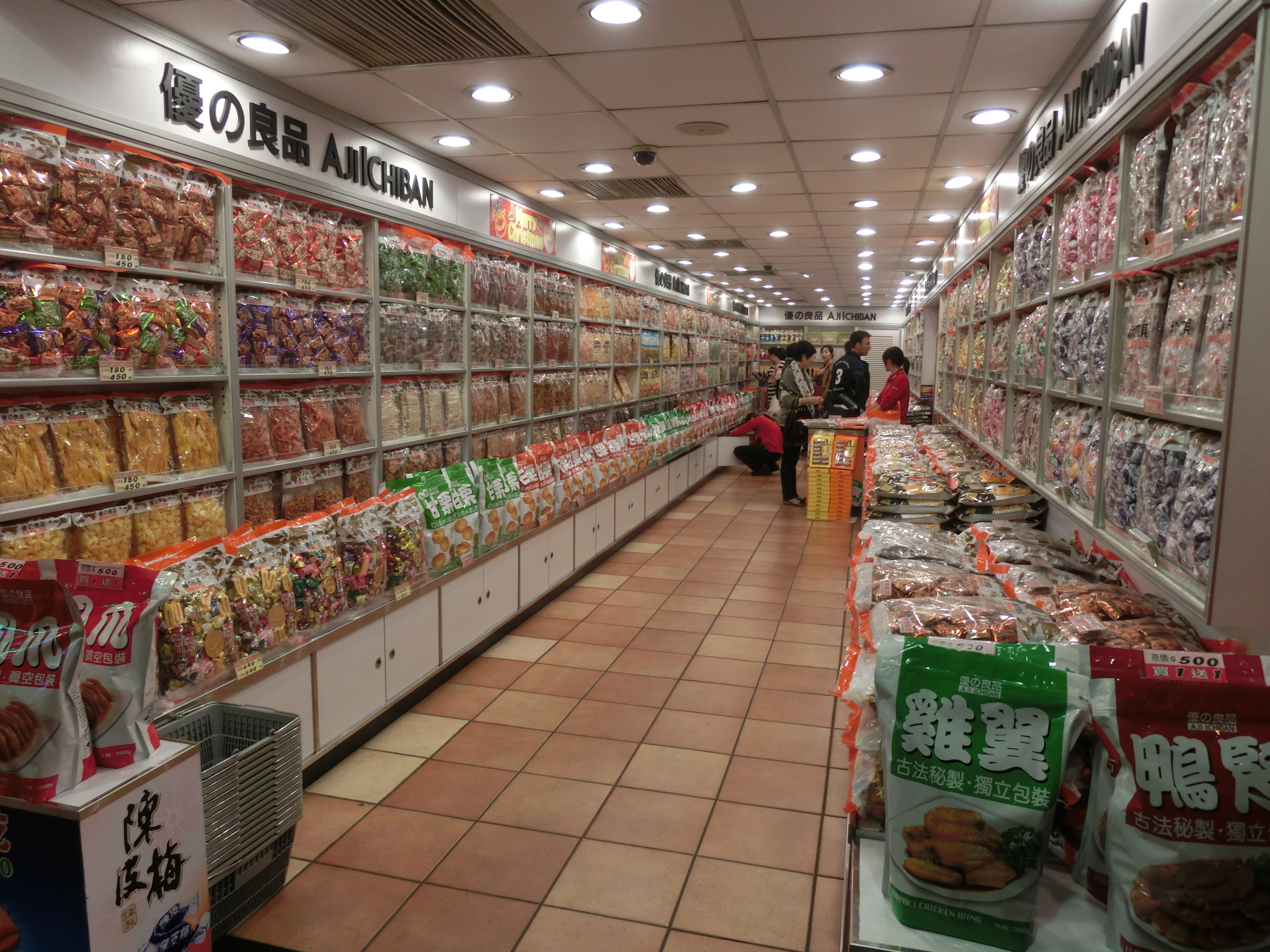 力寶太陽廣場, Lippo Sun Plaza, Canton Road, Tsim Sha Tsui, Hong Kong